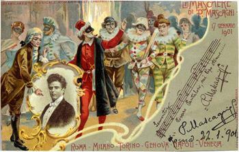 Souvenir postcard for Pietro Mascagni's opera Le maschere signed by Mascagni on Jan 22, 1901 Publisher: Unknown Source: Roger Gross Ltd.